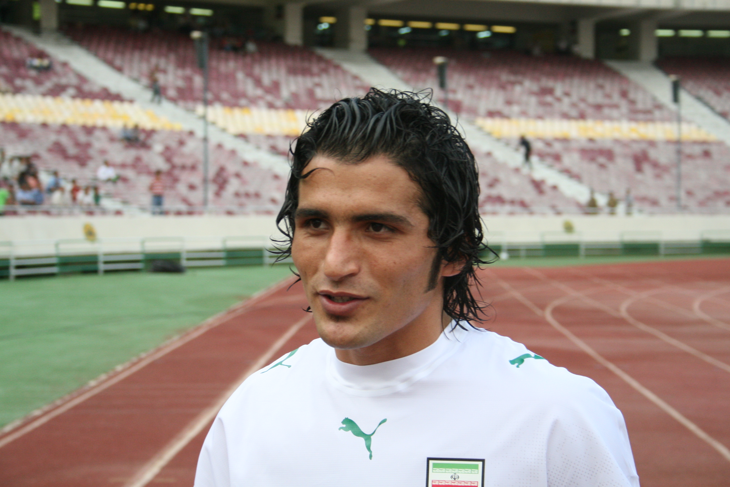 Javad Kazemian in 2006